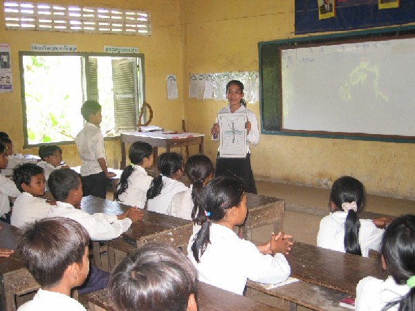 School class in Cambodia.